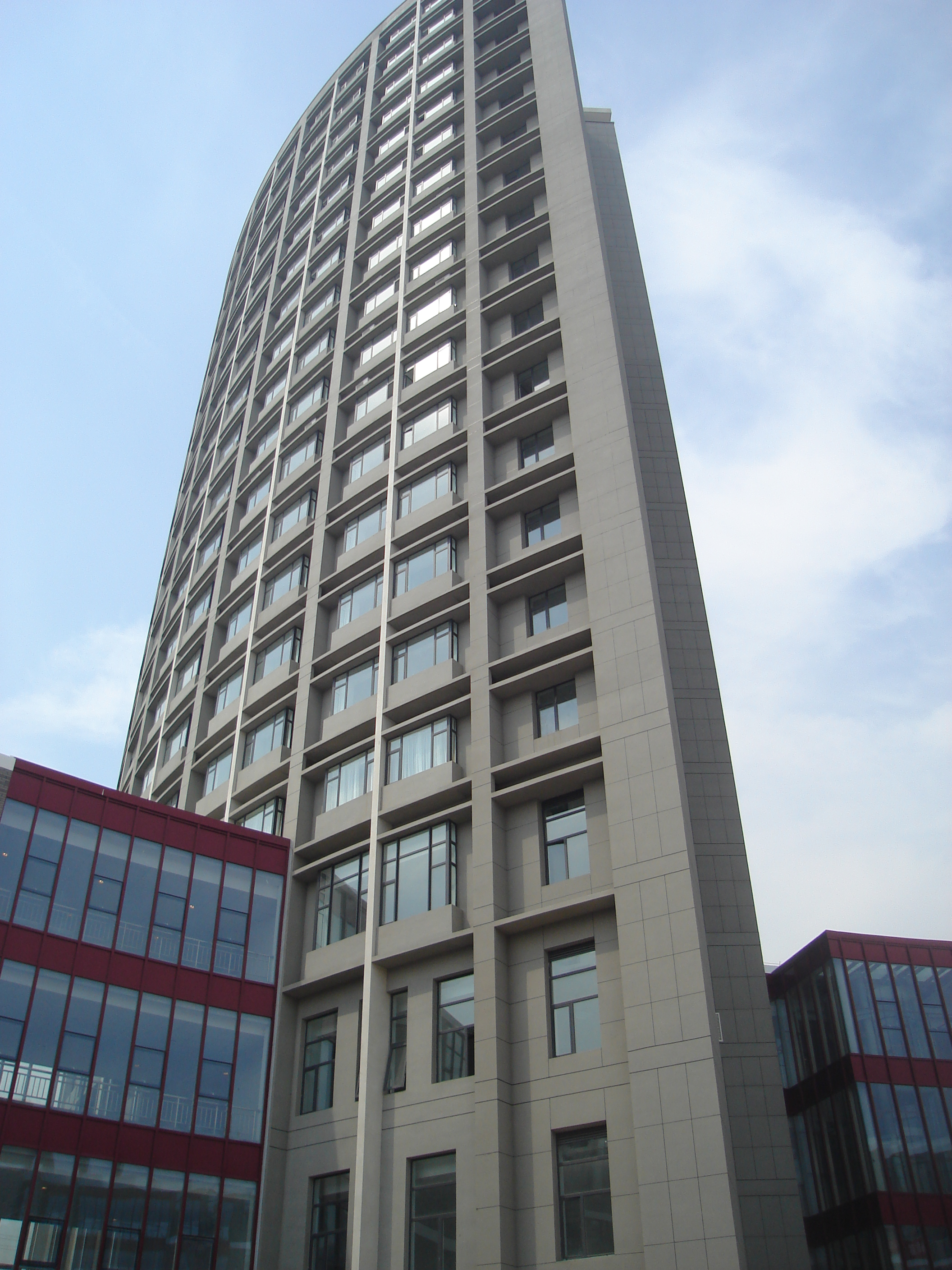 FIU School of Hospitality & Tourism Management Tianjin Center Dormitory